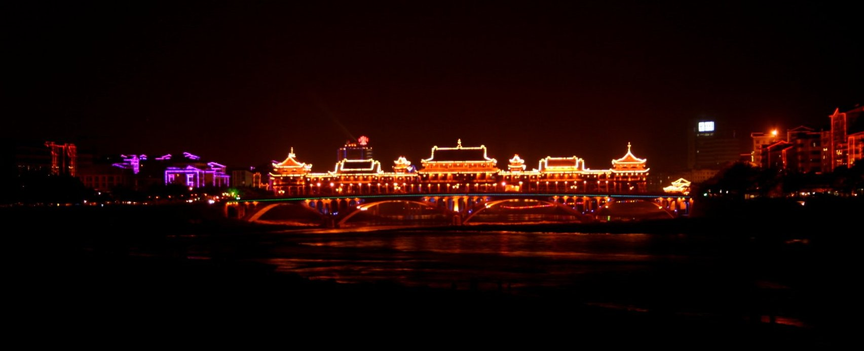 View of the downtown area of Ya'an, Western Sichuan Province, China at night.